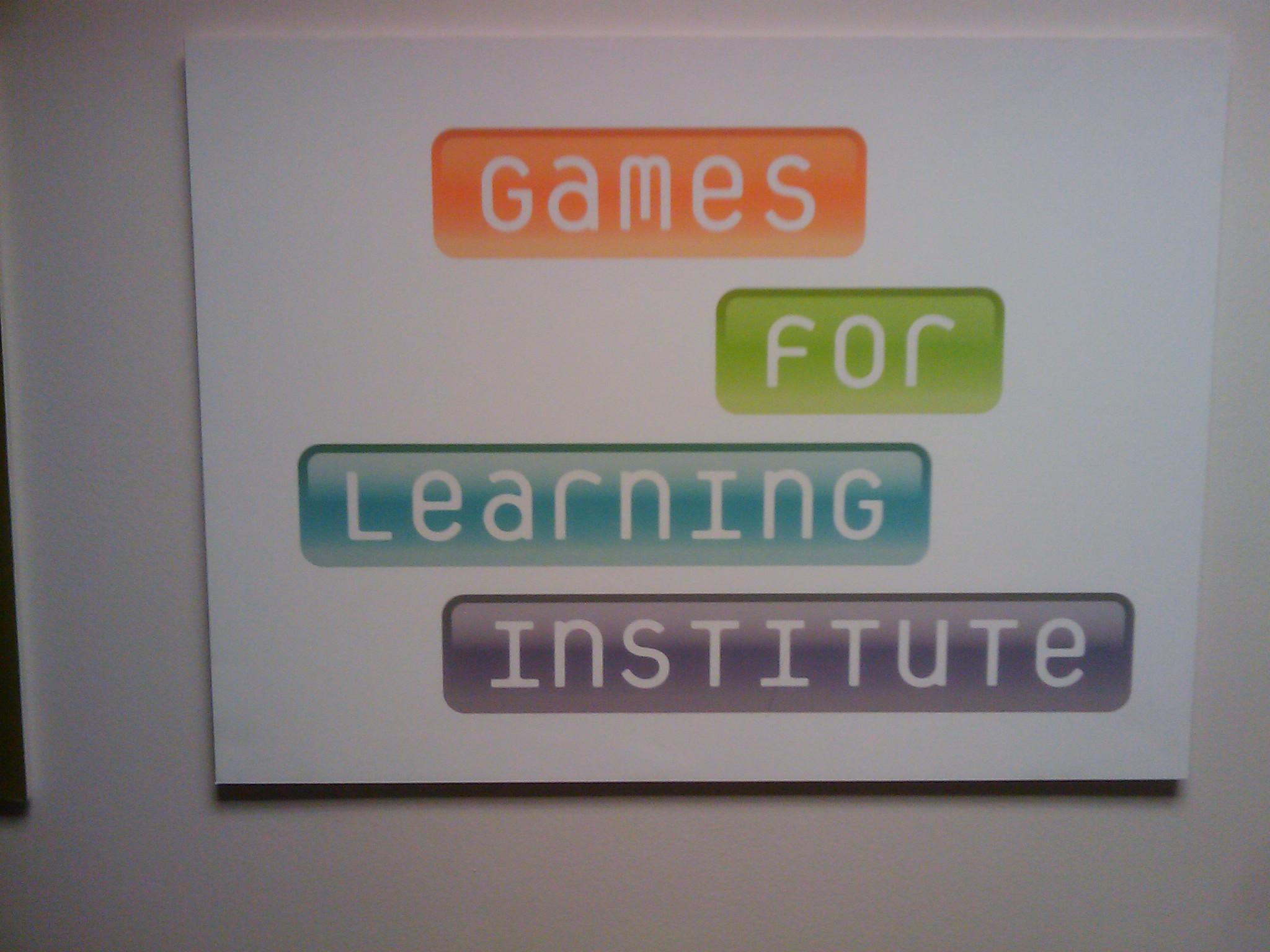 Microsoft and New York University are founding partners of the Games for Learning Institute (G4LI), which "will identify which qualities of computer games engage students and develop relevant, personalized teaching strategies that can be applied to the learning process." Columbia University, the City University of New York, Dartmouth College, Parsons, Polytechnic Institute of NYU, the Rochester Institute of Technology and Teachers College are also participants in the Games for Learning Institute.